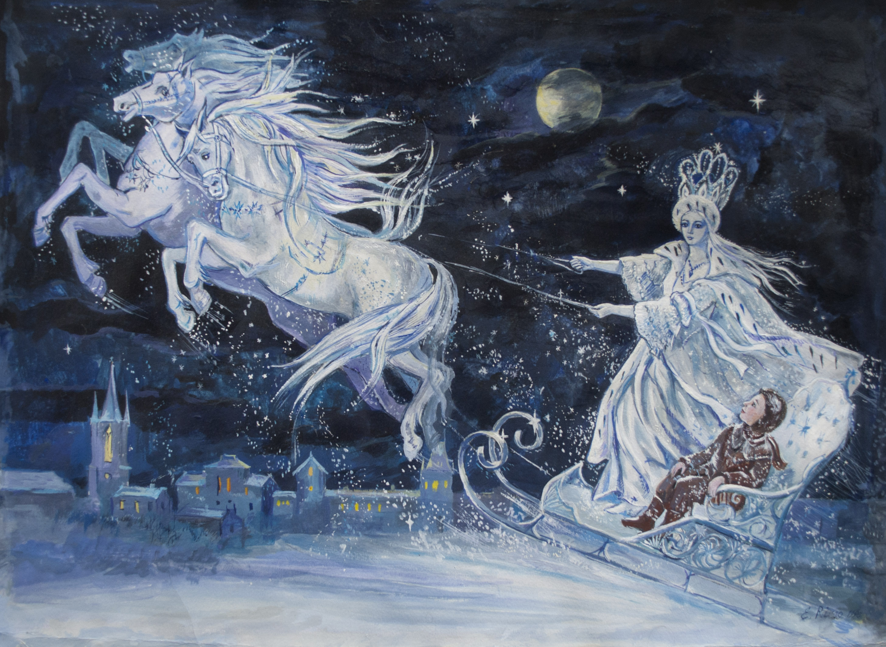 Elena Ringo's Illustration of the Snow Queen by H.C. Andersen